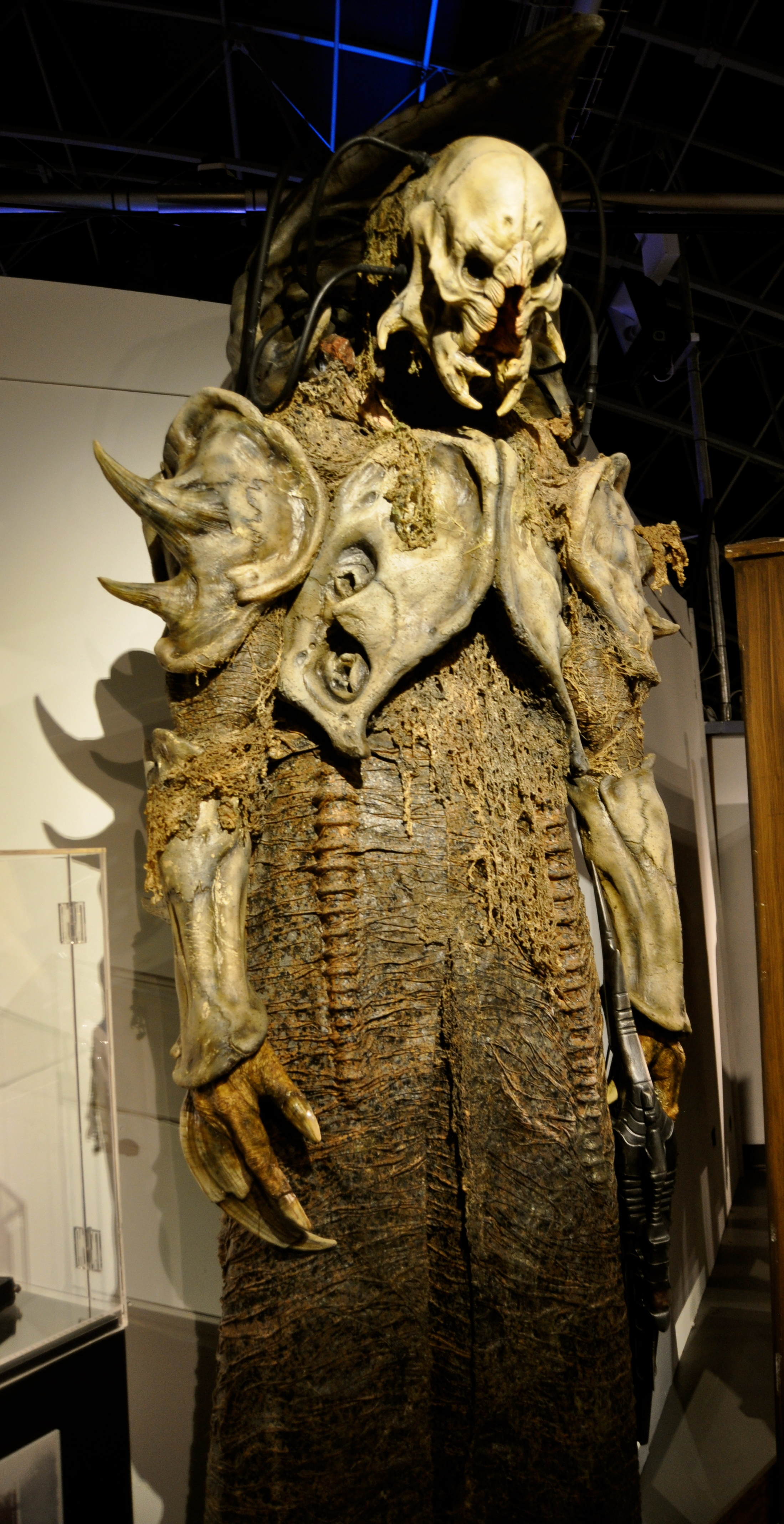 DWE Cardiff Bay, Port Teigr November 2016 Doctor Who Experience